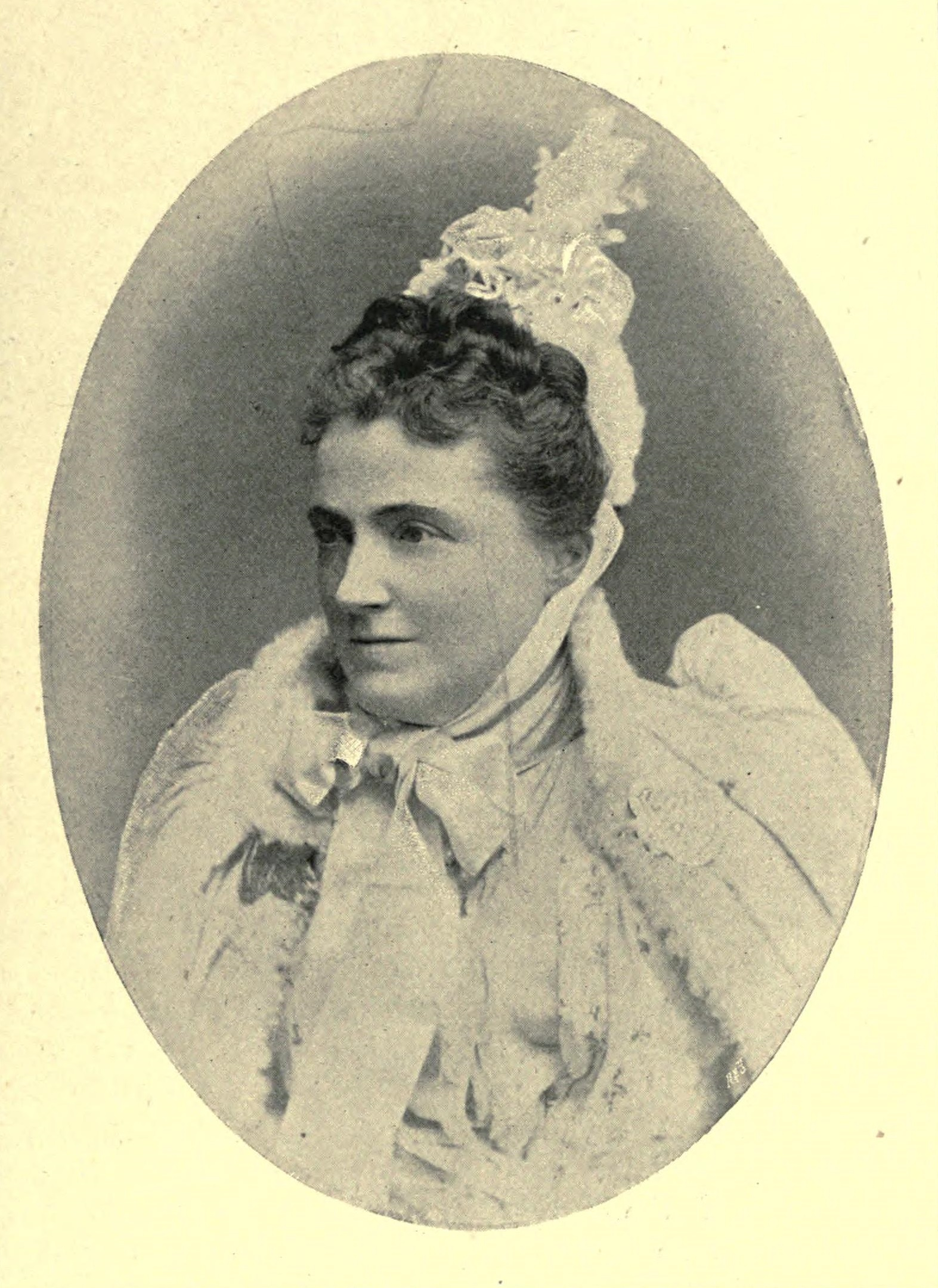 Portrait of Emilia, Lady Dilke